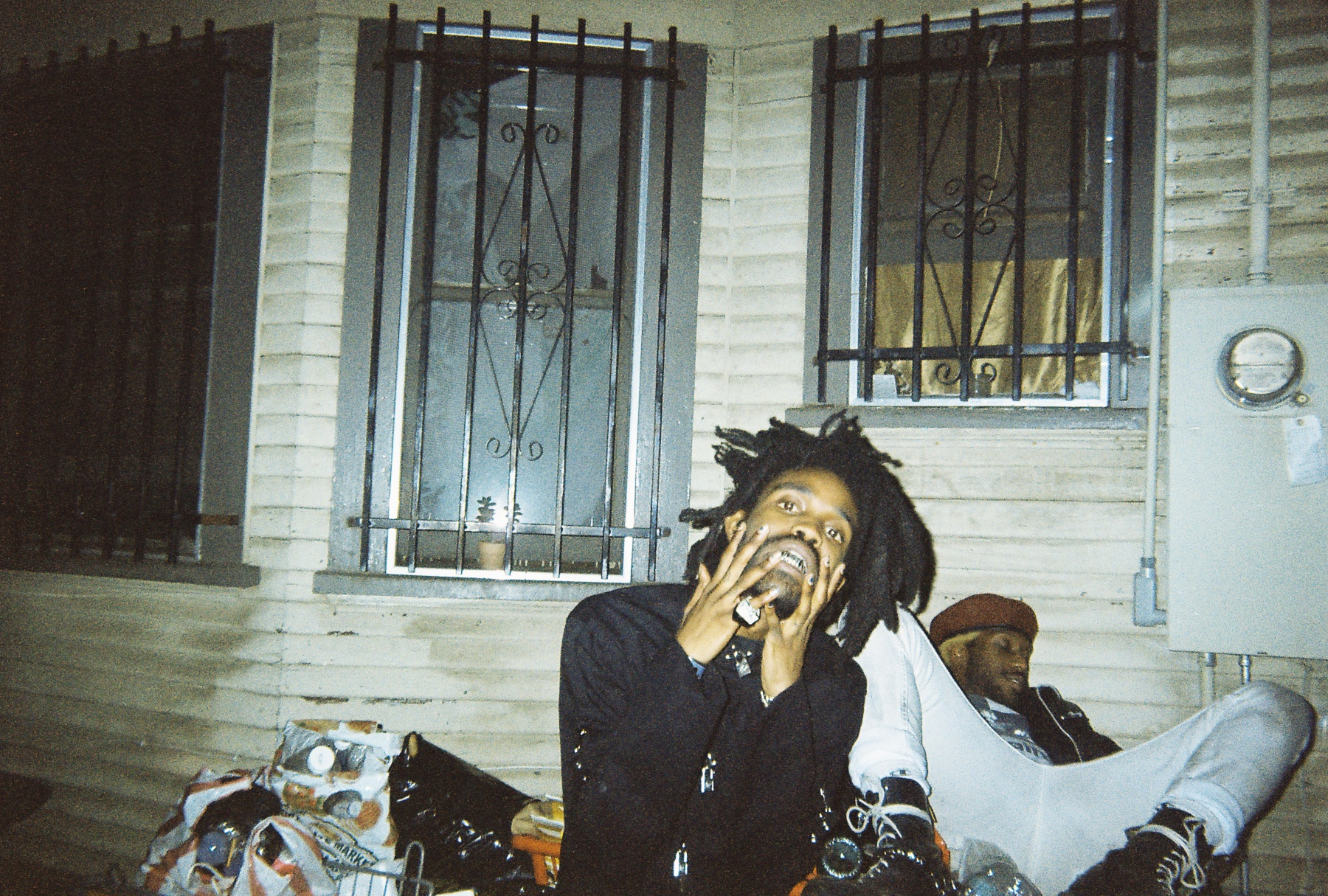 Press image of the bang Ho99o9